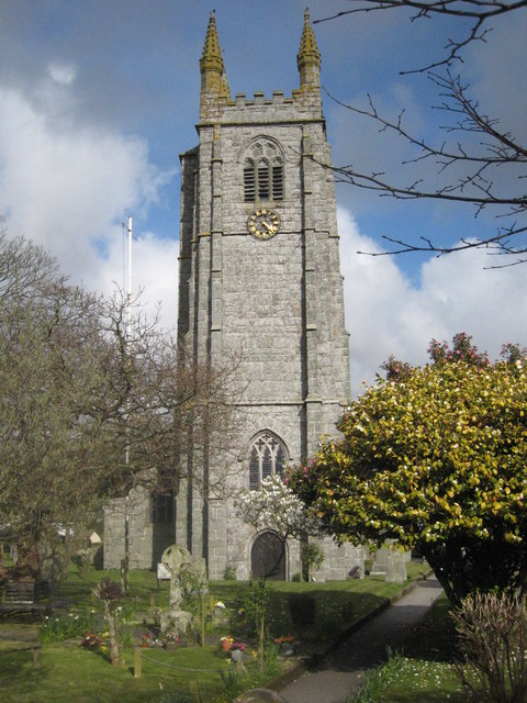 The Church of St Stephen at St Stephen in Brannel Of 12th Century origin and re-built and extended in the 15th Century. More details of this Grade I listed building here